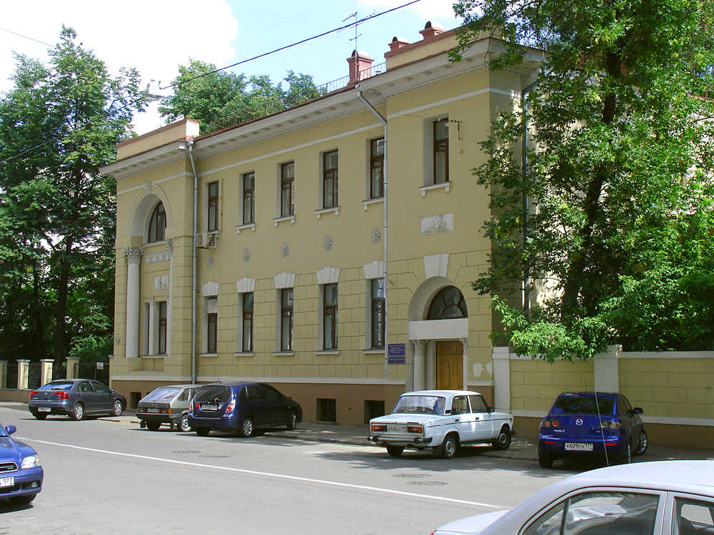 23, Goncharnaya Street, Moscow. Andre House by Sergey Voskresensky, 1913.